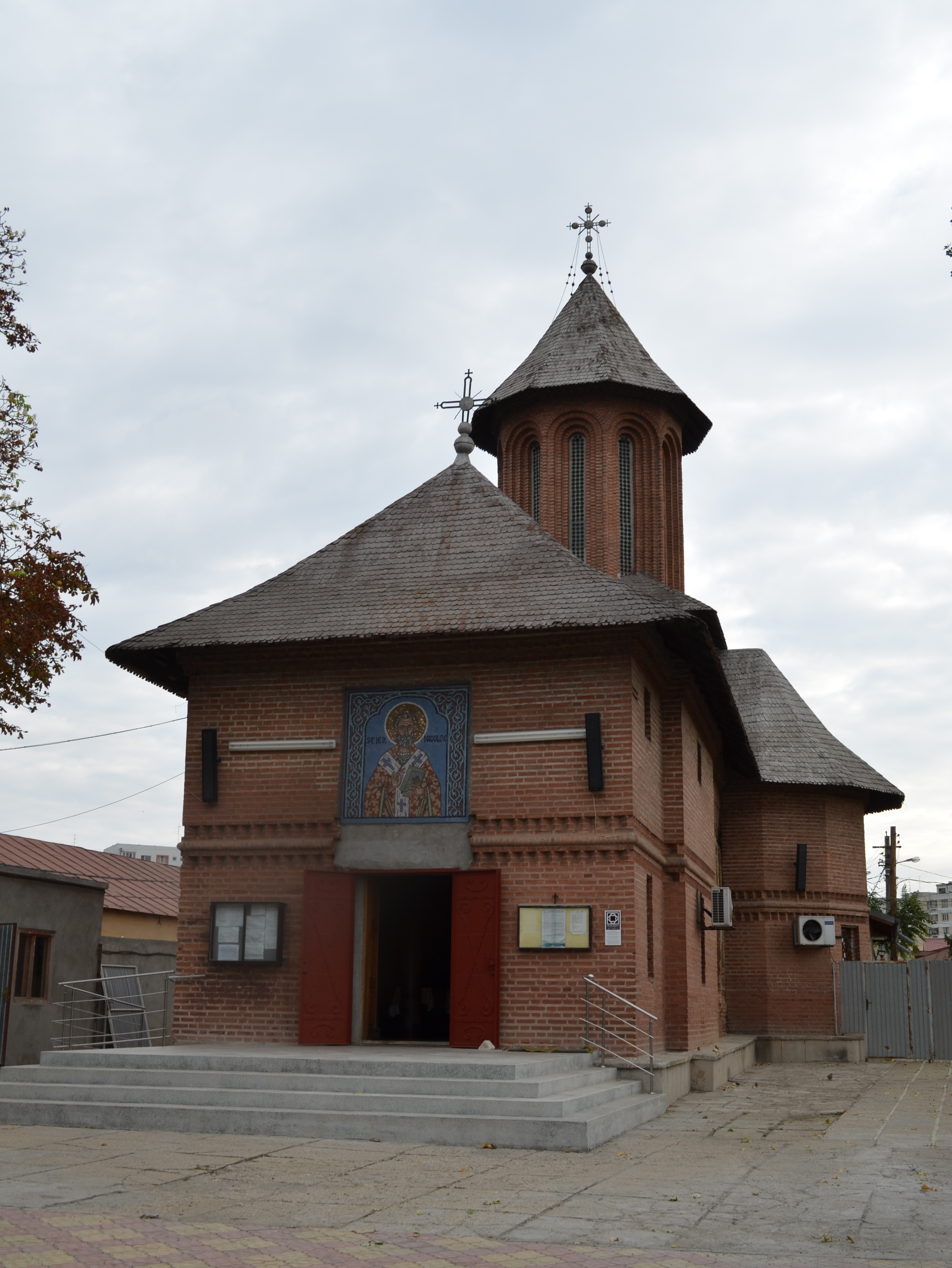 "Saint Nicholas" Church - Dudești Cioplea I Founded by boyar Nicolae Dudescu (1770) as his court's chapel and restored in 1820 by banker Ștefanache Hagi-Moscu, it underwent since many repairs and changes. Its current appearance dates from the restoration of 1972-1983, led by architect Constantin Joja.